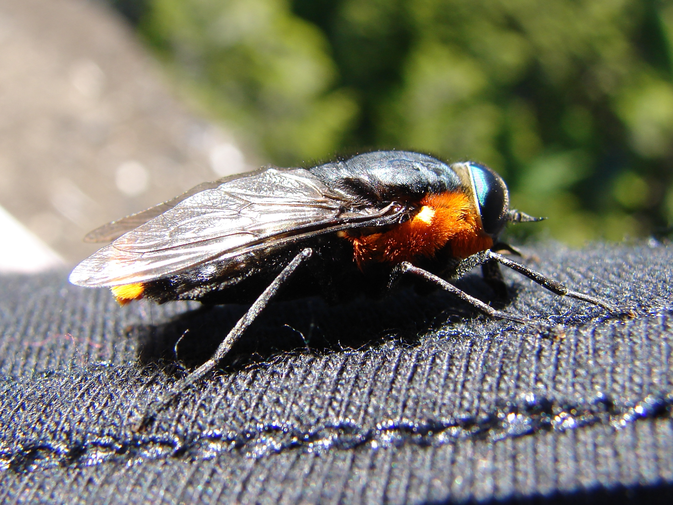 A macro of scaptia lata (aka "coliguacho" and "tabano negro" in Spanish) taken on 11-Feb-2010 at one of the look-out points ("miradors") on the road up the Osorno Volcano in southern Chile. The fly is about two centimeters long.